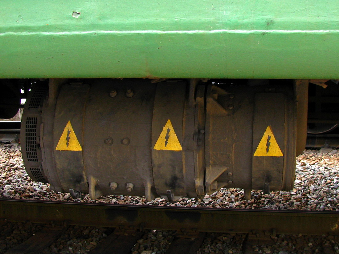 Voltage divider with the generator